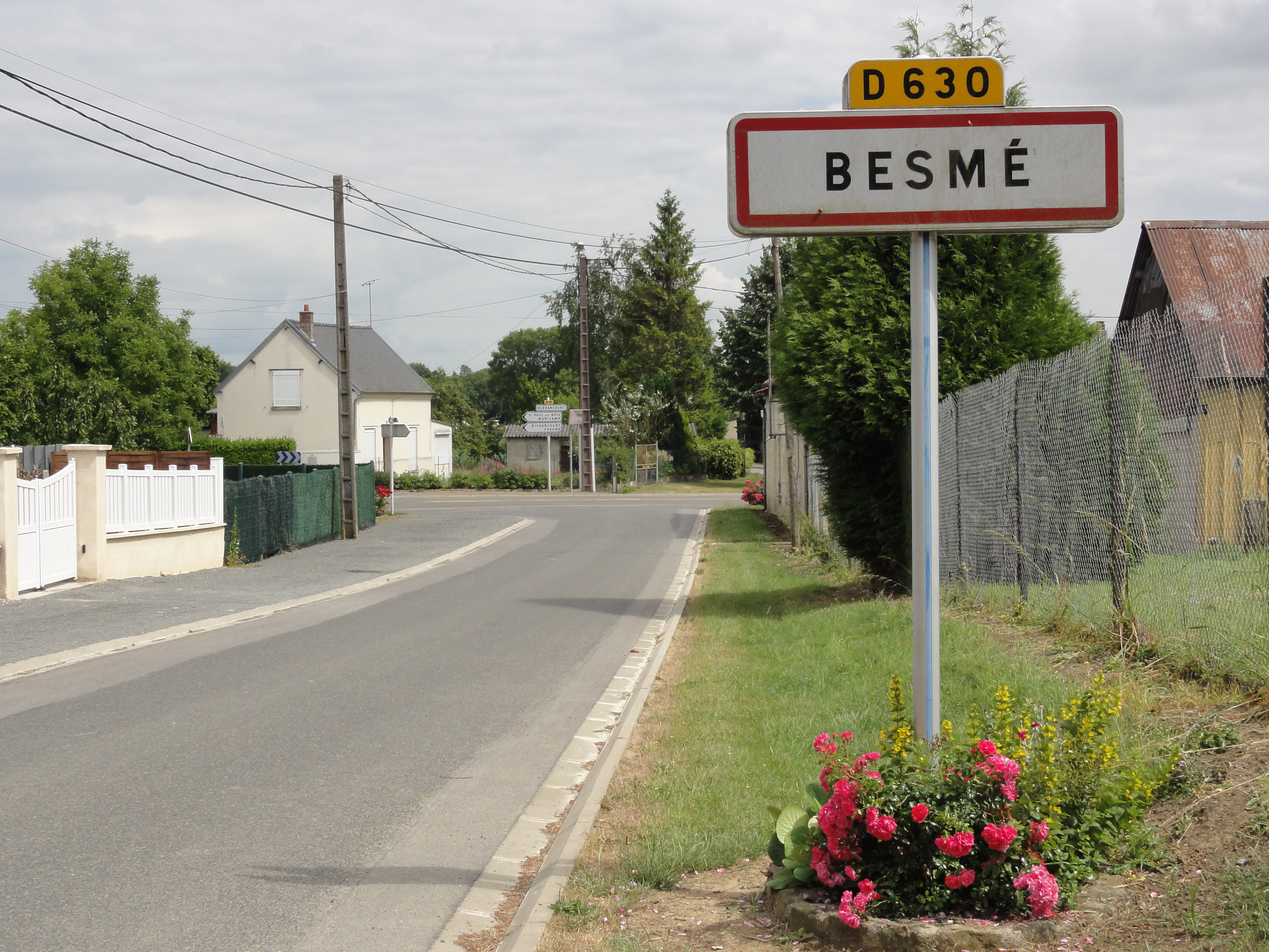 Besmé (Aisne) city limit sign